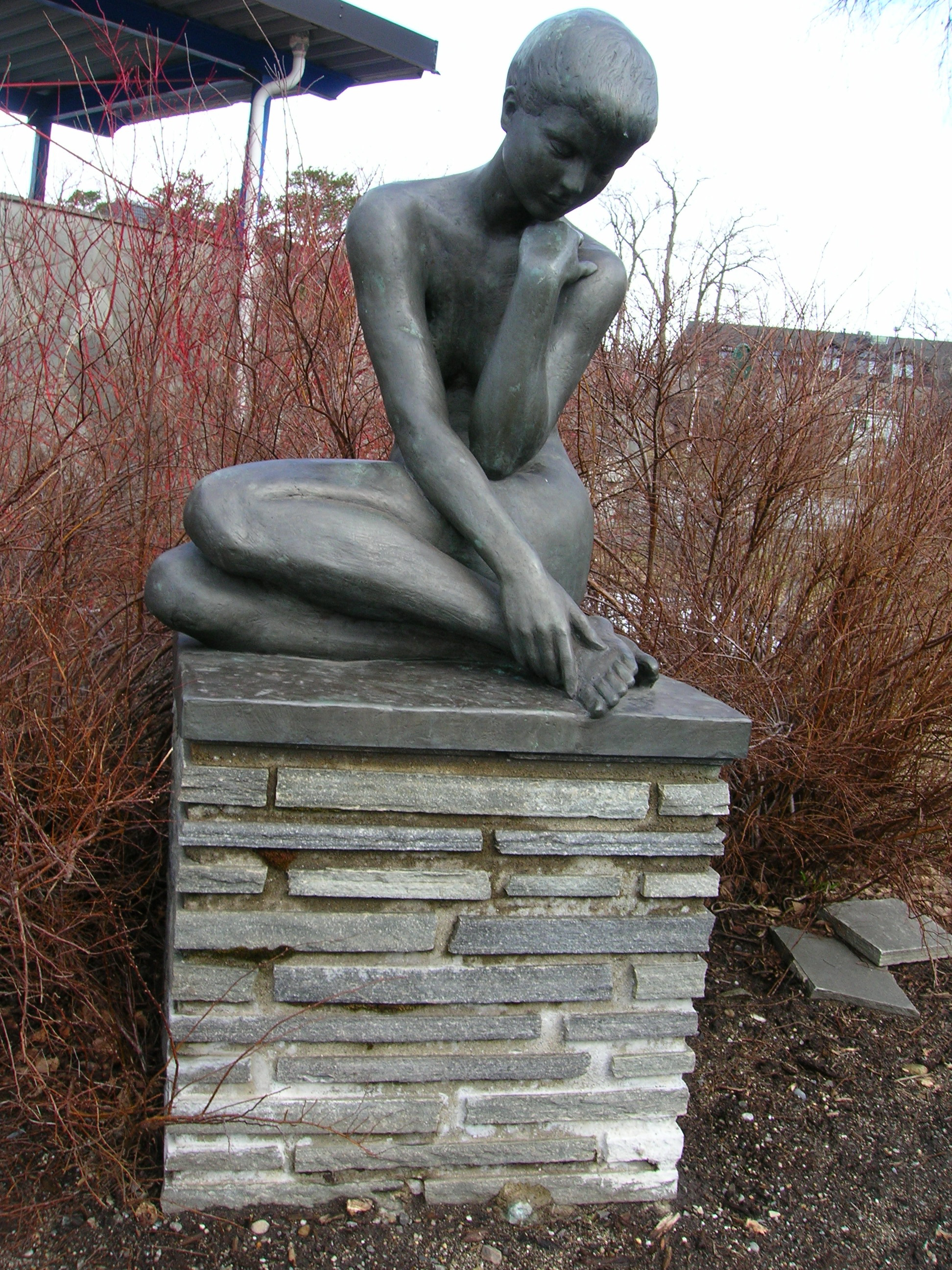 Sculpture of Rana-Nijeta ("the daughter of Earth"), Mo i Rana, Norway. Snapshot from April 15, 2007 with a NIKON Coolpix 5600 5,1 Megapixel camera.